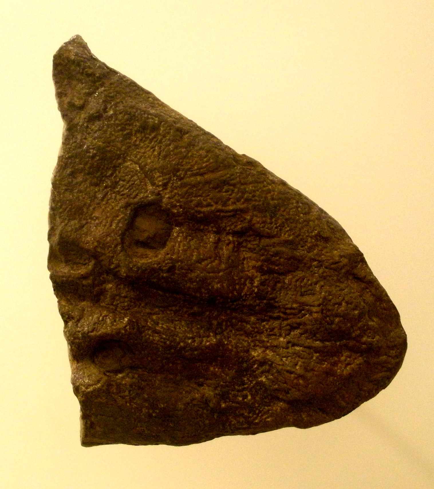 Partial skull of Elpistostege watsoni WESTOLL 1938 (Museé d’Histoire Naturelle de Miguasha, Québec, MHNM 538, but the specimen on the image probably is a copy of it) a fossil fish and close relative of the earliest tetrapods from the Upper Devonian (Frasnian) of the Escumina Formation of Québec.[1] ↑ Hans-Peter Schultze, Marius Arsenault (1985): The panderichthyid fish Elpistostege: a close relative of tetrapods? Palaeontology 28(2): 293–309 (PDF).